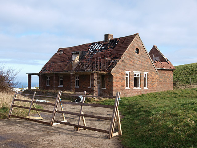 Ruined house, Goldsborough Lane This burnt-out building was the guardhouse of an abandoned 1950s radar station at Barnby Howe